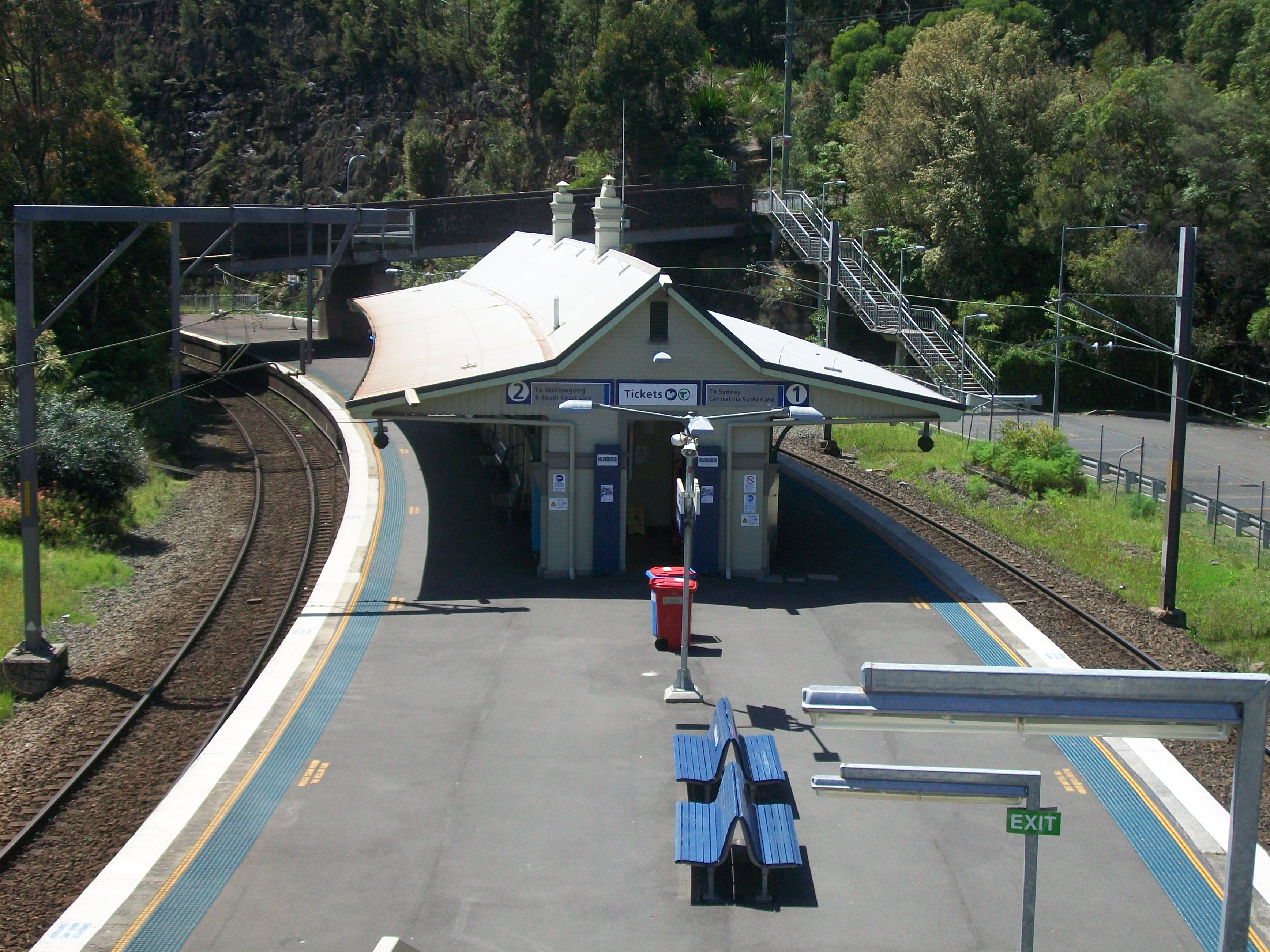 Helensburgh railway station